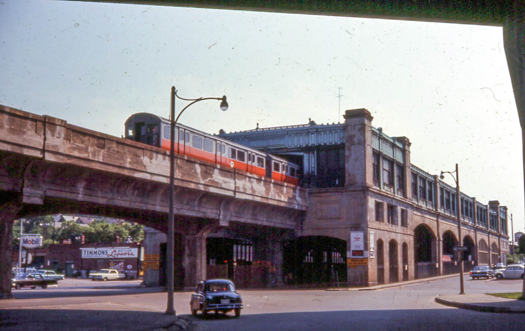 An outbound train arrives at Forest Hills station in 1967